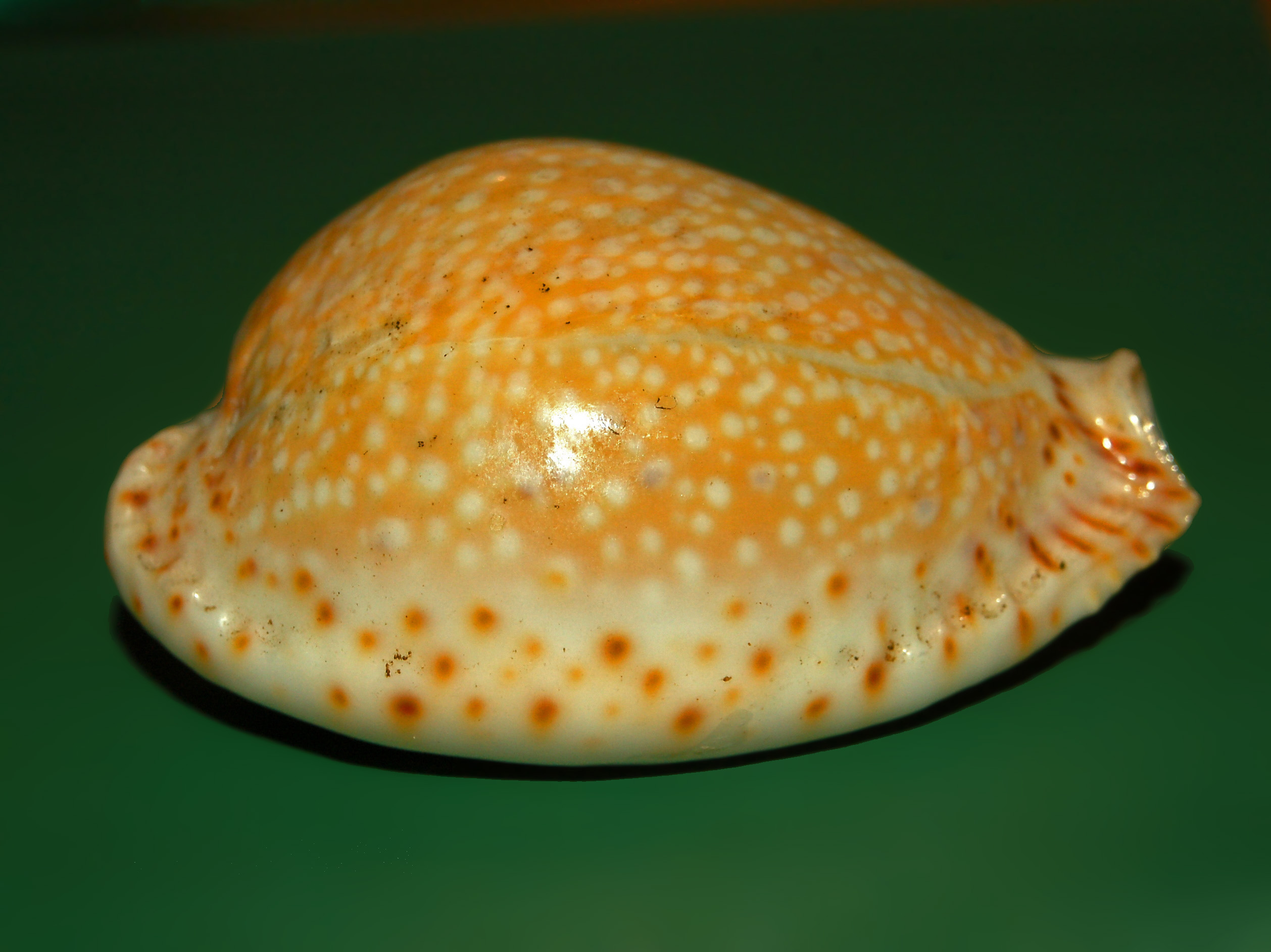 Naria lamarckii - Zanzibar